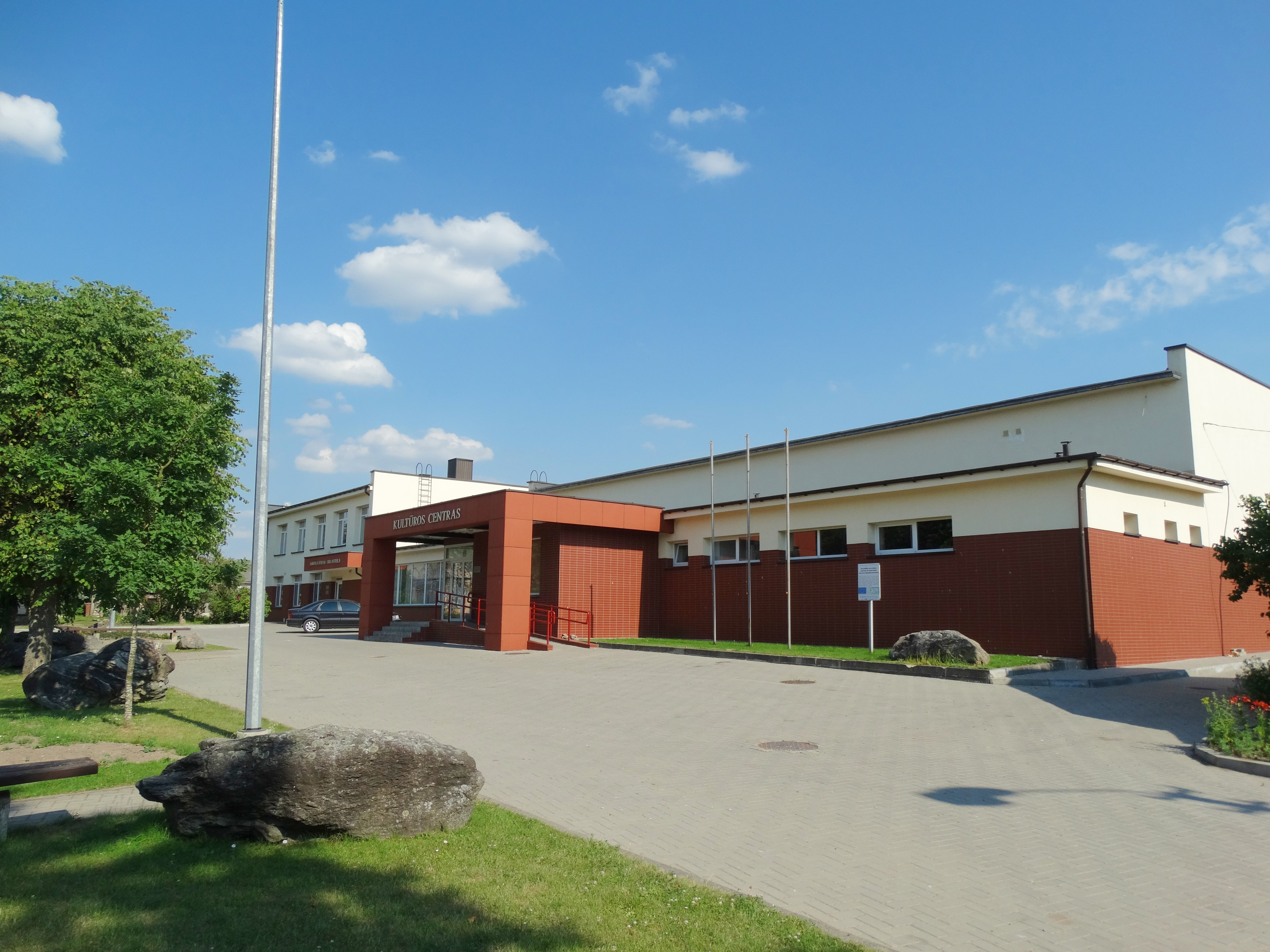 Culture centre, Nevarėnai, Telšiai District, Lithuania